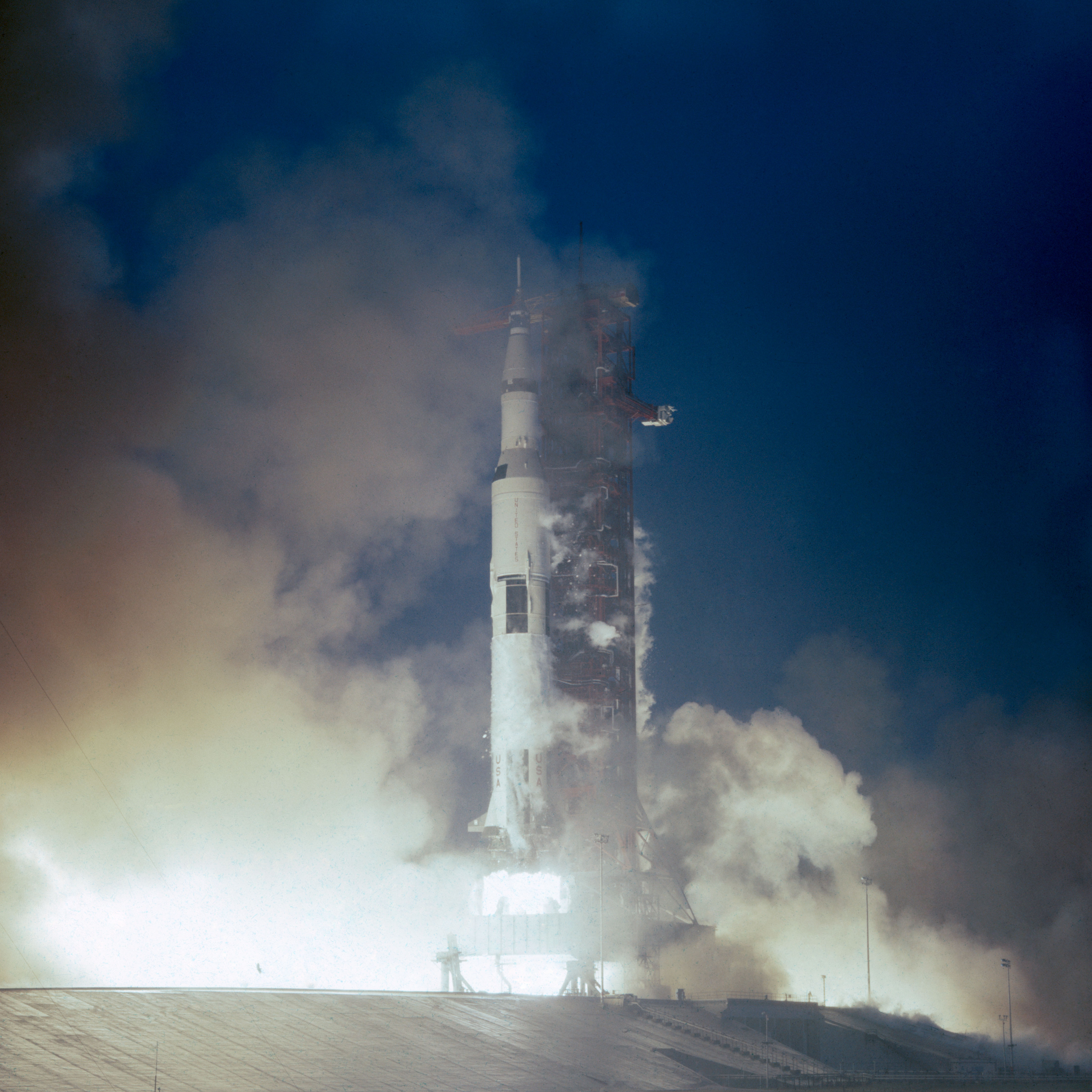 The huge, 363-feet tall Apollo 12 (Spacecraft 108/Lunar Module 6/Saturn 507) space vehicle is launched from Pad A, Launch Complex 39, Kennedy Space Center (KSC), at 11:22 a.m. (EST), Nov. 14, 1969. Aboard the Apollo 12 spacecraft were astronauts Charles Conrad Jr., commander; Richard F. Gordon Jr., command module pilot, and Alan L. Bean, lunar module pilot. Apollo 12 is the United States' second lunar landing mission.